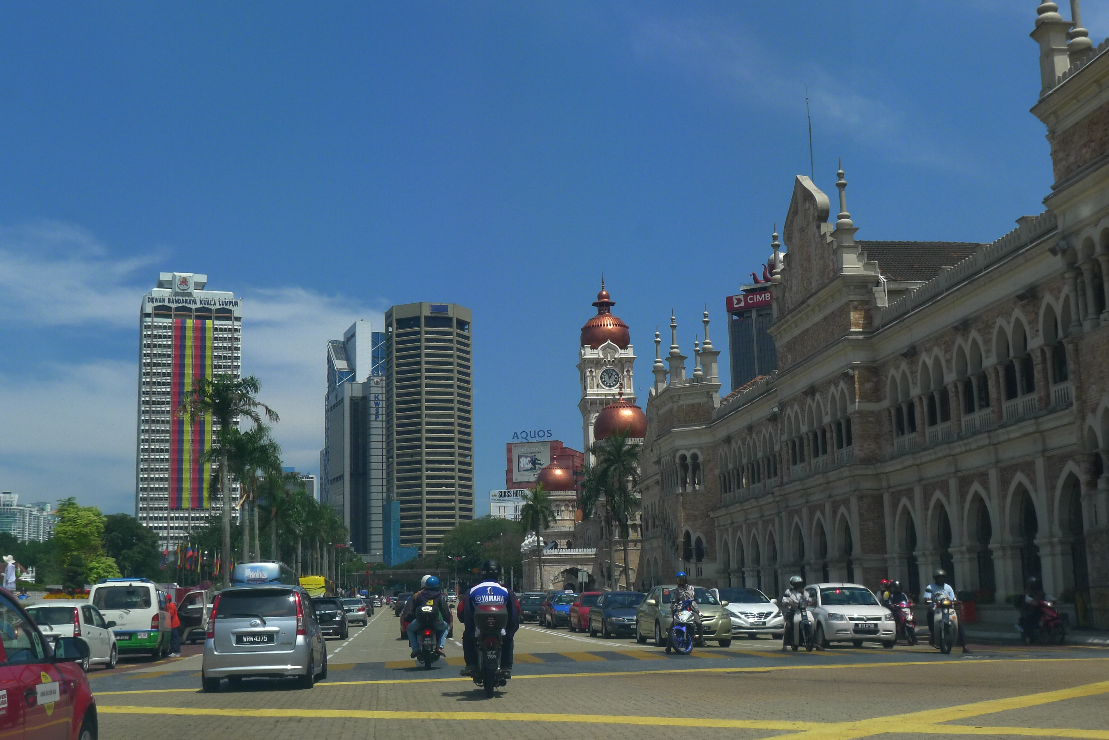 A view of Bangunan Sultan Abdul Samad at street level.